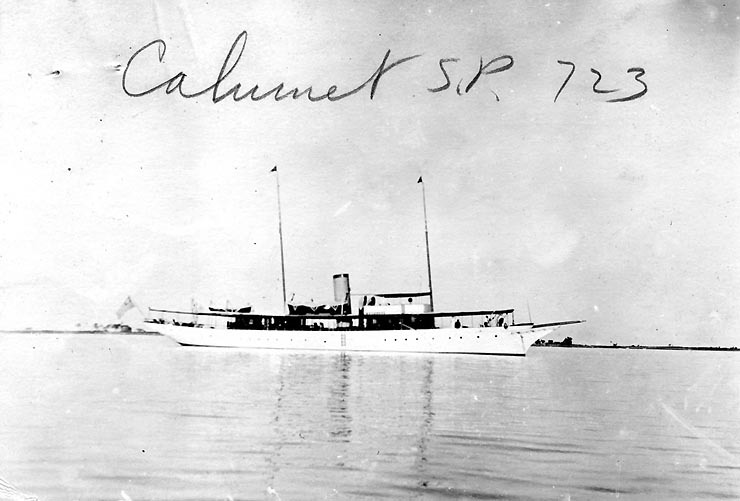 The private yacht Calumet prior to her United States Navy service as the patrol vessel USS Calumet (SP-723)